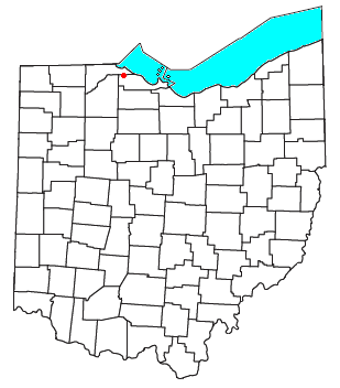 Locator map of the unincorporated community of Williston in Ottawa County, Ohio, United States.